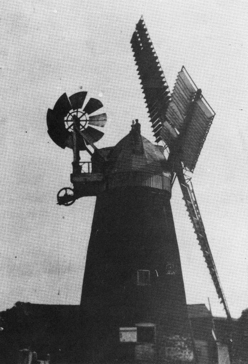 The windmill at Bardwell, Suffolk in 1910. Image is a cropped scan of a photograph captioned with the date 1910, publisher unknown.